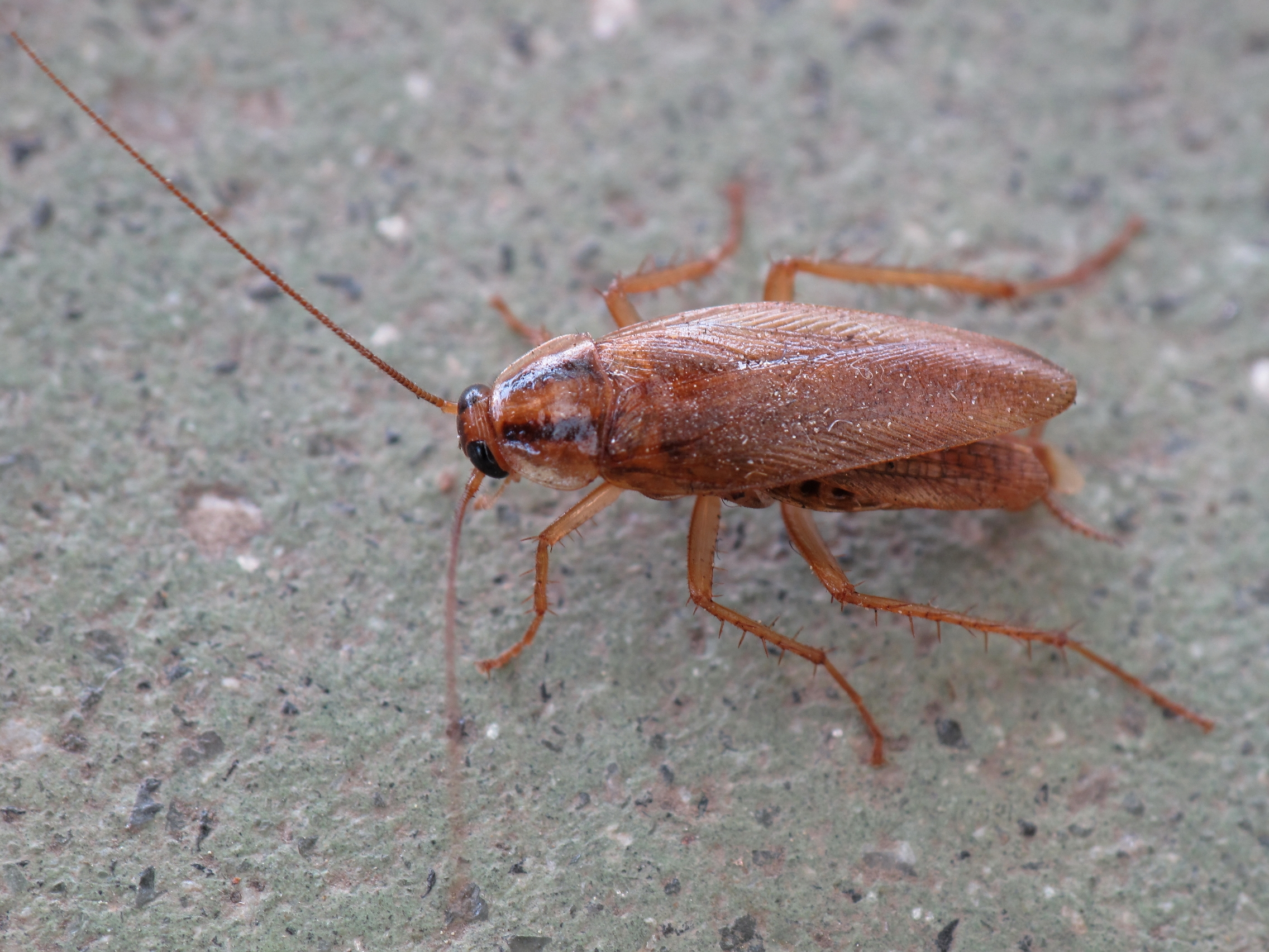 Blattella germanica, Santiago de Compostela, Galicia (Spain)